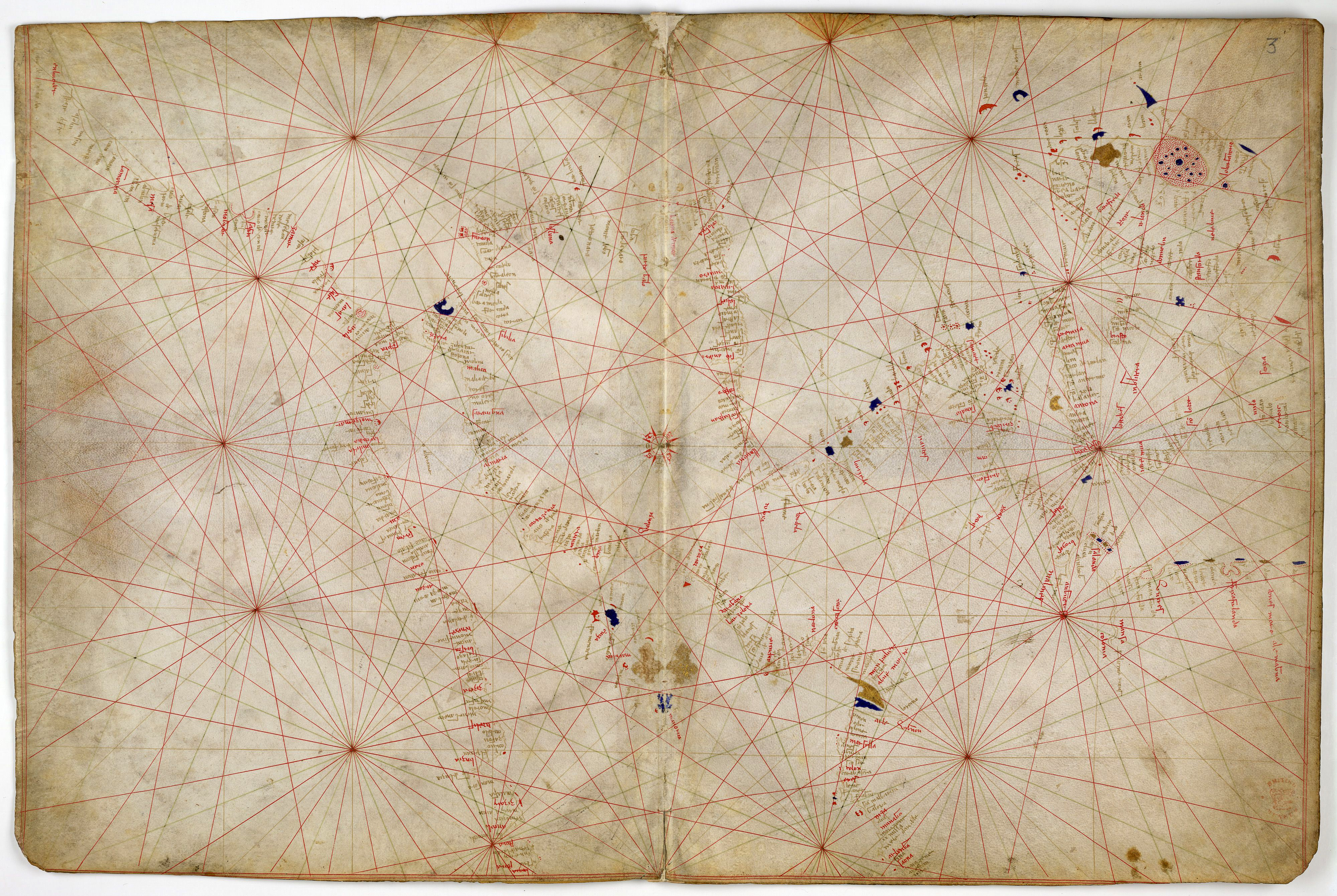 The third sheet of the seven-sheet Pinelli-Walckenaer Atlas, a set of Italian portolan charts, depicting the west Mediterranean and north Atlantic coast, including the British Isles (it is oriented with West on top).